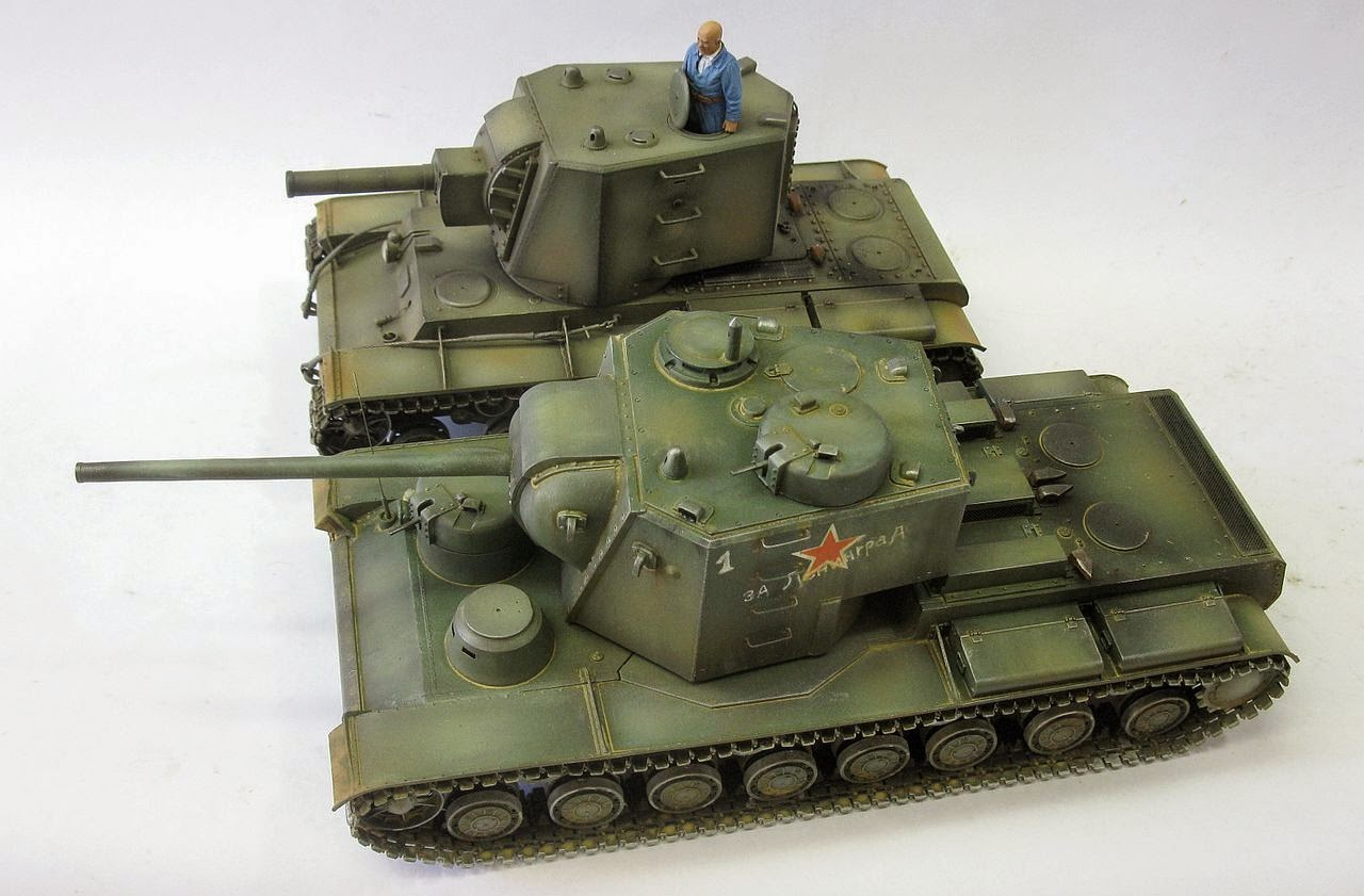 Model of KV-5 superheavy tank and KV-2 heavy tank